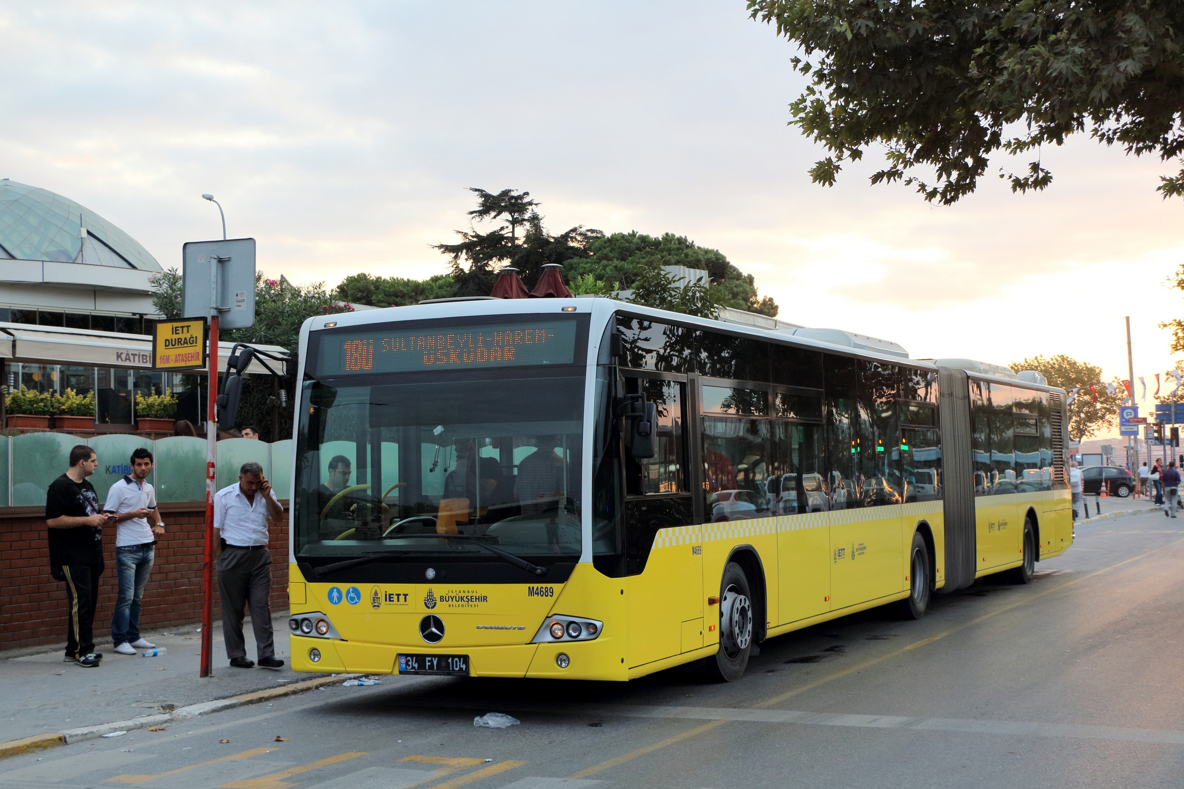 City bus in Istanbul (Mercedes-Benz Conecto G)